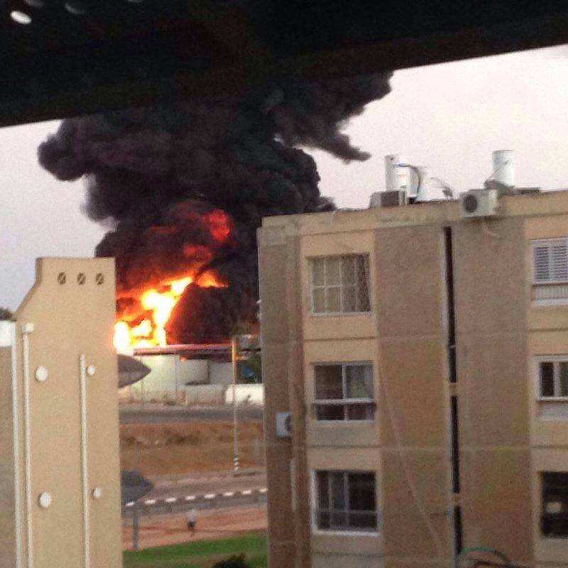 Apartment building on fire in the town Sderot, after Missile attack from the Gaza Strip in June 2014